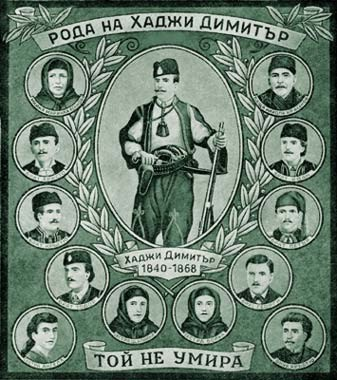 Family poster of Hadzhi Dimitar (1840-1868), his parents, 6 brothers and 3 sisters